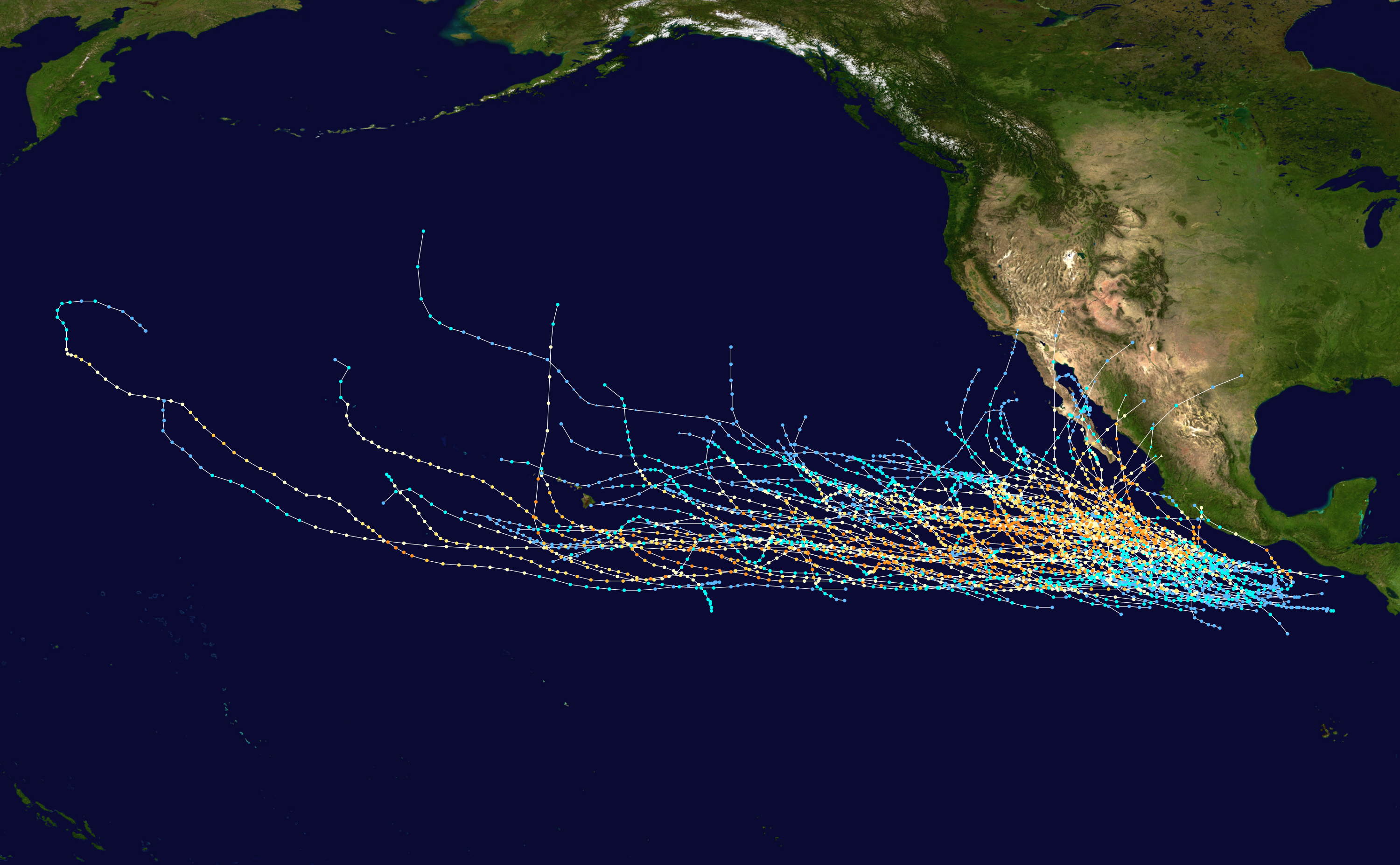 Track map of all Category 4 hurricanes in the Eastern Pacific Basin. The points show the location of the storm at 6-hour intervals. The colour represents the storm's maximum sustained wind speeds as classified in the Saffir-Simpson Hurricane Scale (see below), and the shape of the data points represent the nature of the storm, according to the legend below. Saffir–Simpson hurricane wind scale Tropical depression≤38 mph≤62 km/h Category 3111–129 mph178–208 km/h Tropical storm39–73 mph63–118 km/h Category 4130–156 mph209–251 km/h Category 174–95 mph119–153 km/h Category 5≥157 mph≥252 km/h Category 296–110 mph154–177 km/h Unknown Storm typeTropical cycloneSubtropical cycloneExtratropical cyclone / Remnant low / Tropical disturbance